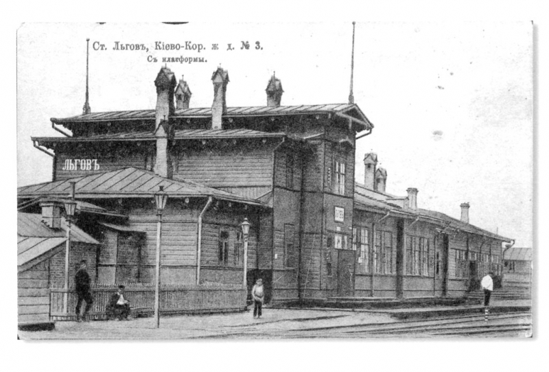 Old Lgov-Kievsky Train Station